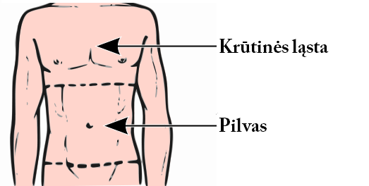 thorax and abdomen